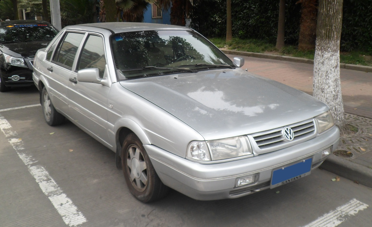 Volkswagen Santana 2000 photographed in Shanghai, China.